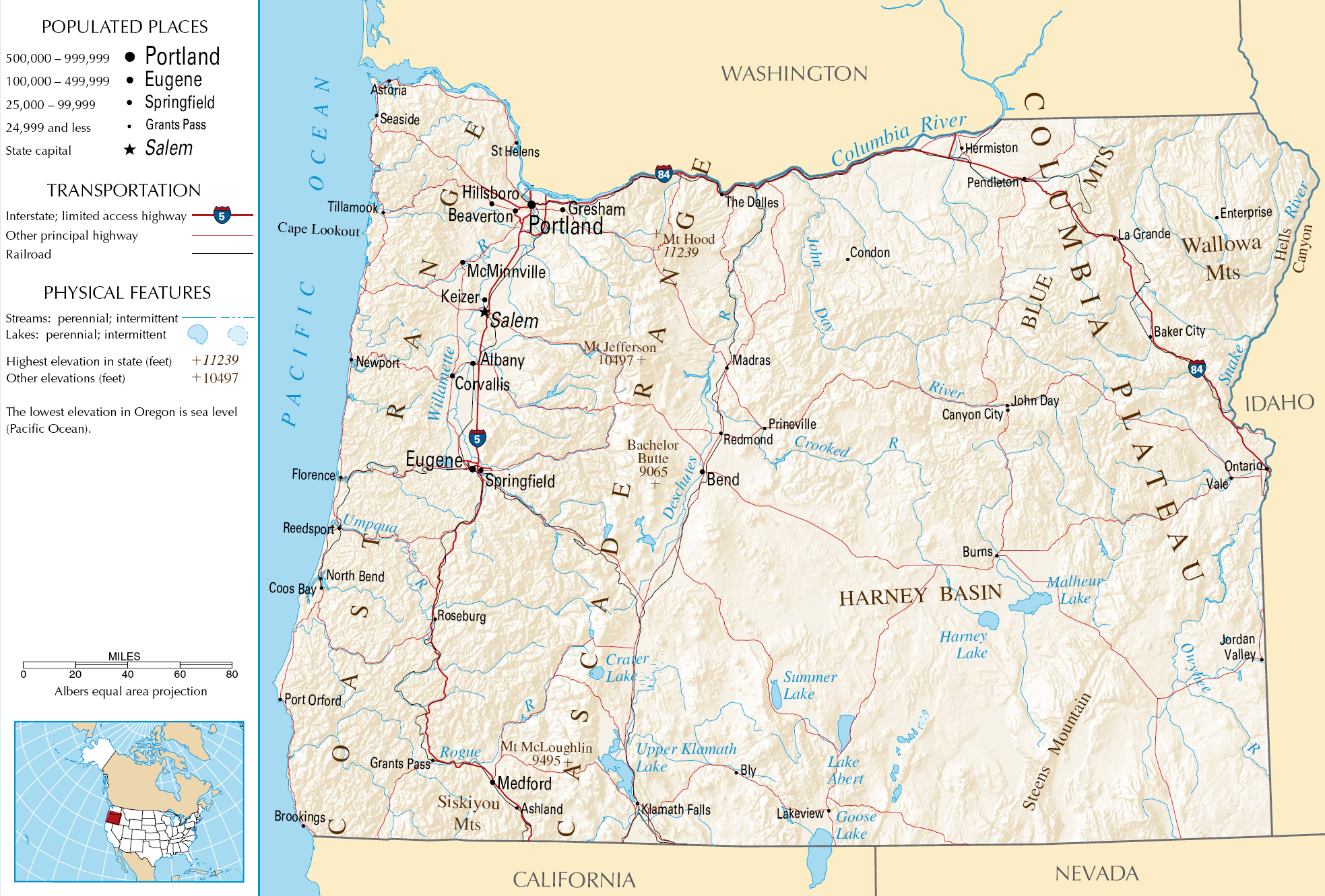 Topographic map of the geography of Oregon — with major rivers shown. Located in the Northwestern United States.